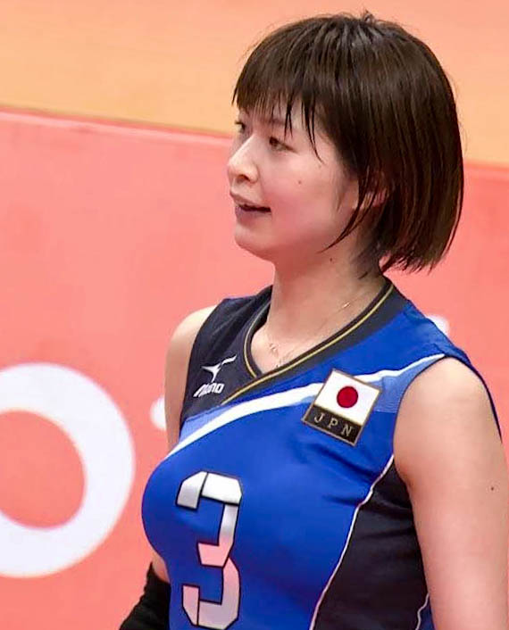 Kimura Saori during Rio 2016 Olympic Games